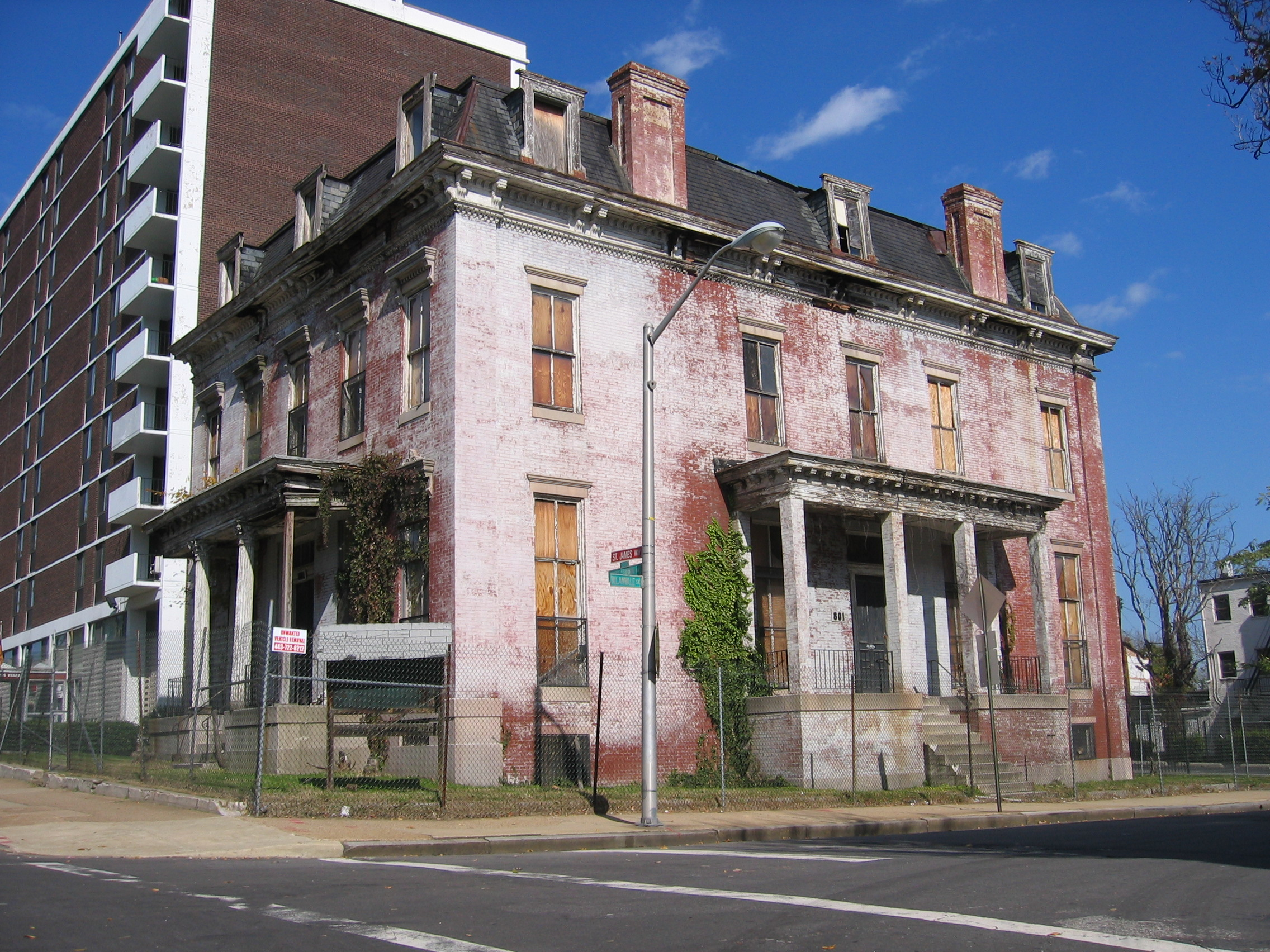 The Sellers Mansion "Built in 1868, the Sellers Mansion is a three-story Second Empire (style) brick house with a mansard roof that rivaled its outer suburban contemporaries in size, quality of craftsmanship, and attention to detail. Its carved stone lintels, patterned slate roof, original roof cresting, and its two classically detailed porticoes (one of which still retains its elegantly carved wooden columns and capitals) identified this household as one of taste and affluence. Although carefully restored in the 1960s and adapted to a variety of community uses through the early 1990s, the mansion currently stands vacant and in an advanced state of deterioration. The windows are missing, wood trim is rotting, and exterior masonry is deteriorating. The roof has failed in a number of places. The mansion occupies a prominent corner of Lafayette Square in West Baltimore and is at the center the Old West Baltimore National Register Historic District. This district, with over 5000 contributing structures, is one of the largest predominately African American historic districts in the country. The mansion is the only remaining detached private residence on the Square, and one of the first residences constructed there. It is owned by St. James Episcopal Church, also located on Lafayette Square. The Church has expressed an interest in restoring the building. The building was included on the 2006 inventory of endangered buildings by Preservation Maryland. With advanced deterioration, work will need to begin soon if the building is to be preserved." For more information on this and other currently threatened properties see here.